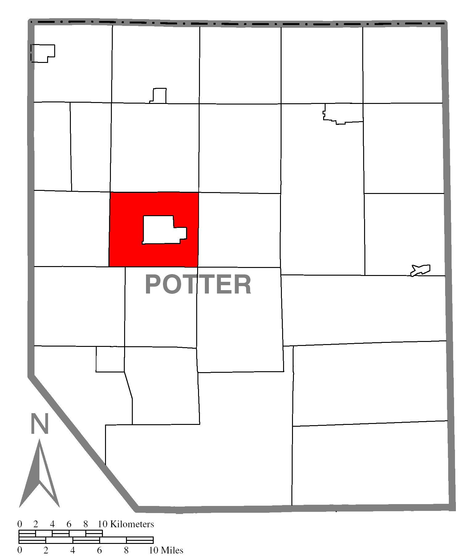 A map of Potter County showing Eulalia Township, Pennsylvania (alternate) highlighted on the map.